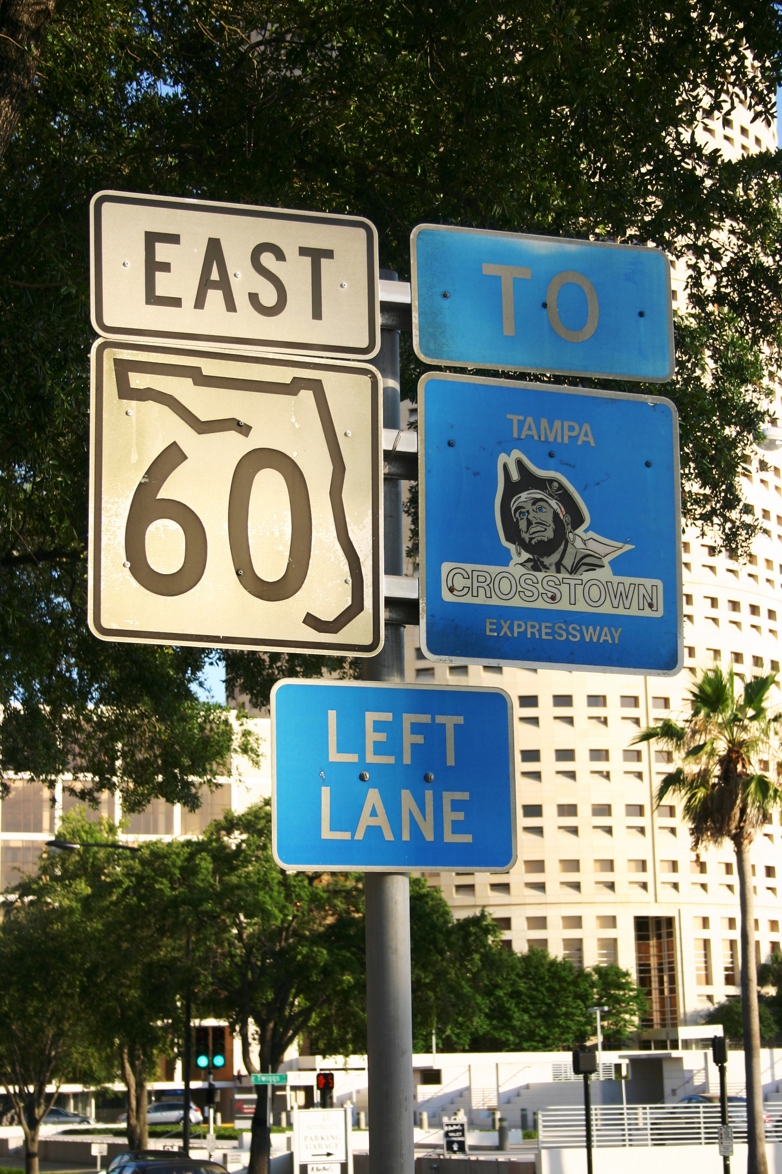 A Florida State Road 60 sign on Kennedy Boulevard in Tampa, with an older Crosstown Expressway sign alongside of it.